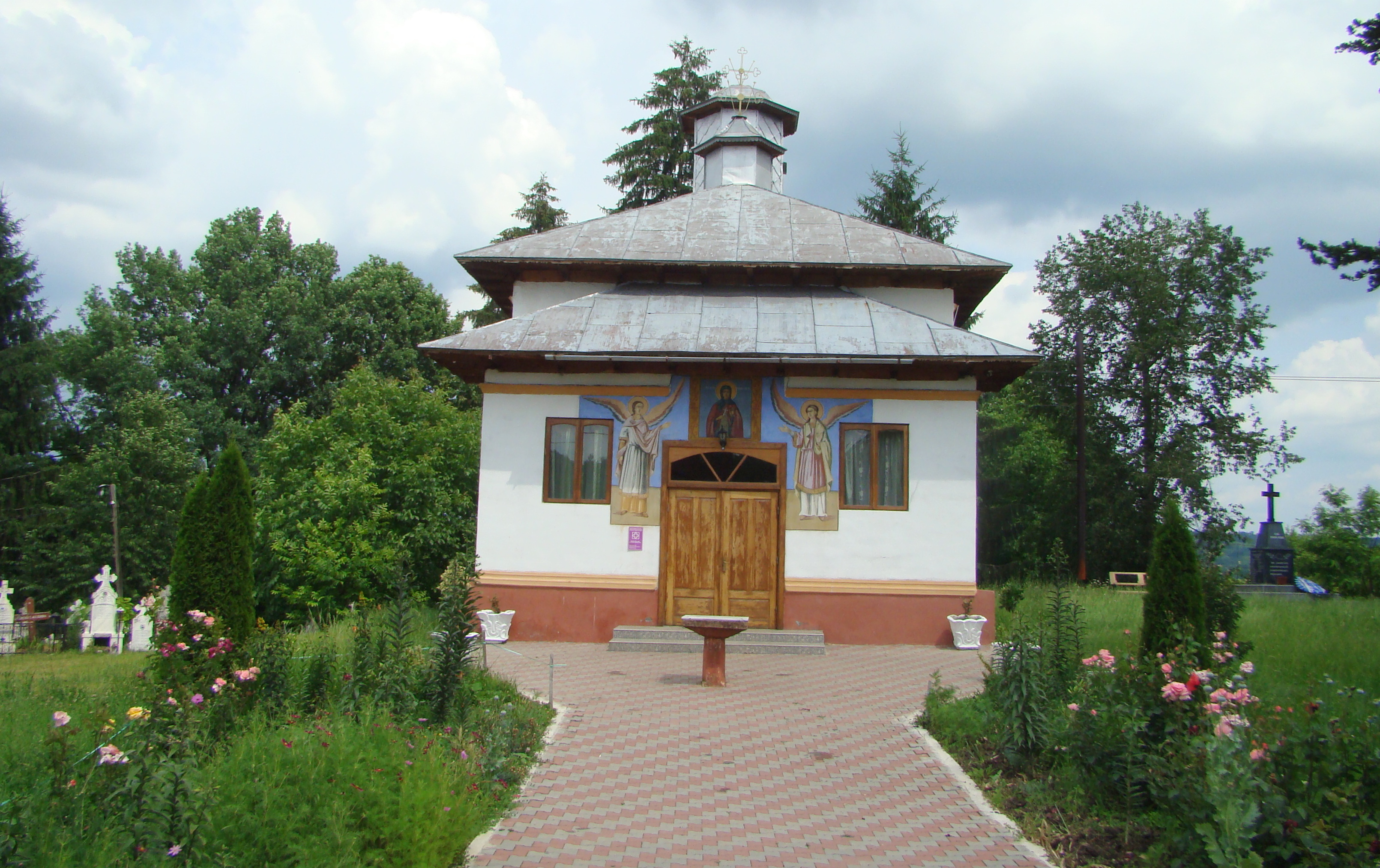 Wooden church in Milostea, Vâlcea county, Romania